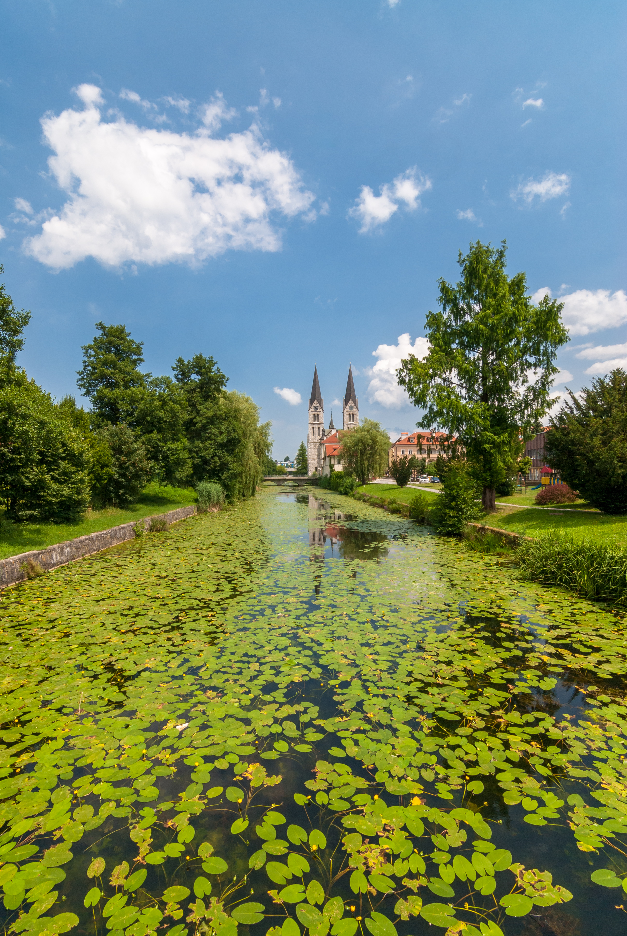 River Rinža full of water-lilies in Kočevje, Slovenia